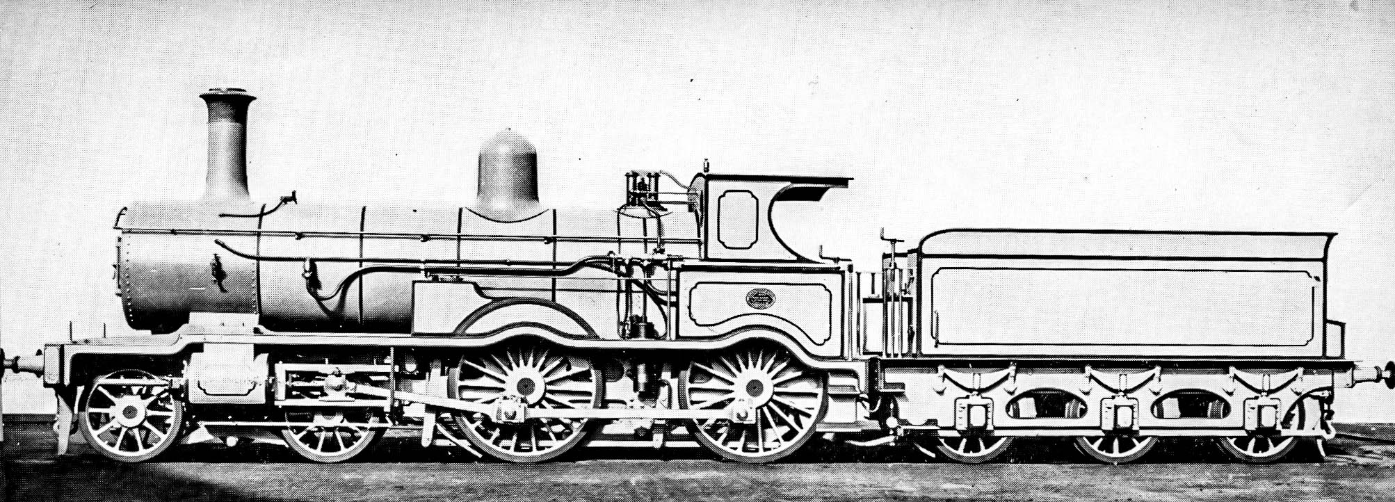 NSWGR Class Z17 Locomotive